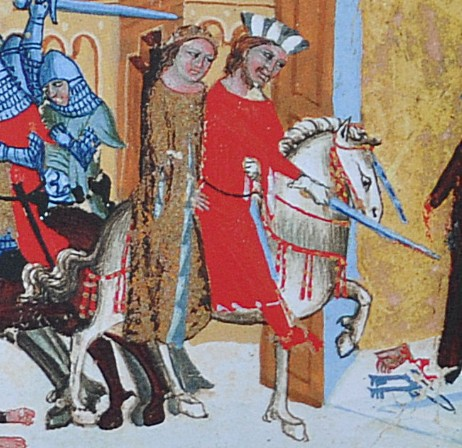 Bretislaus I of Bohemia + Judith of Schweinfurt